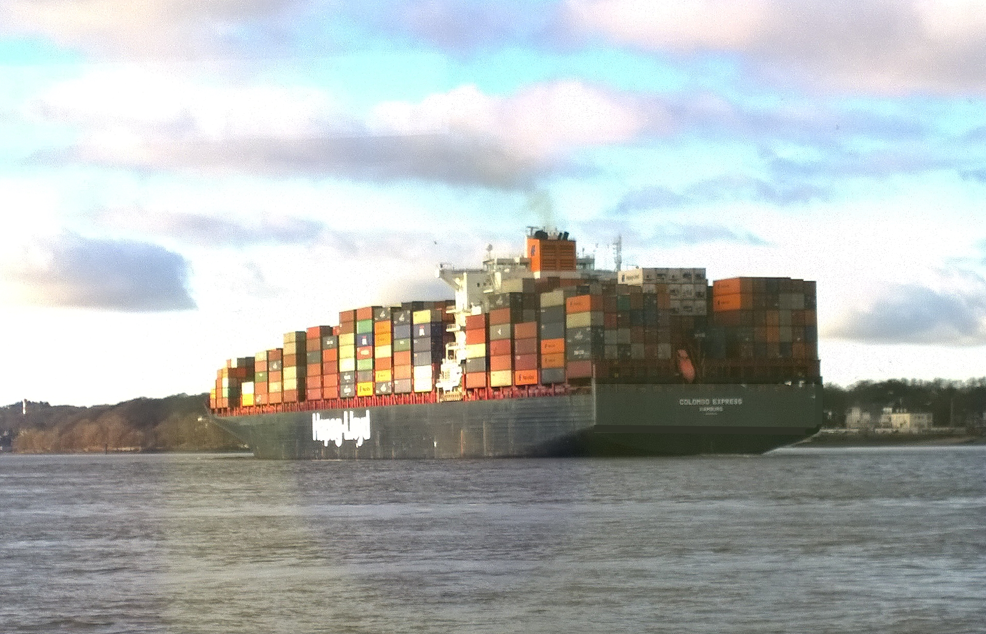 The Hapag-Lloyd Container ship Colombo Express on the way the river Elbe down in January 2017